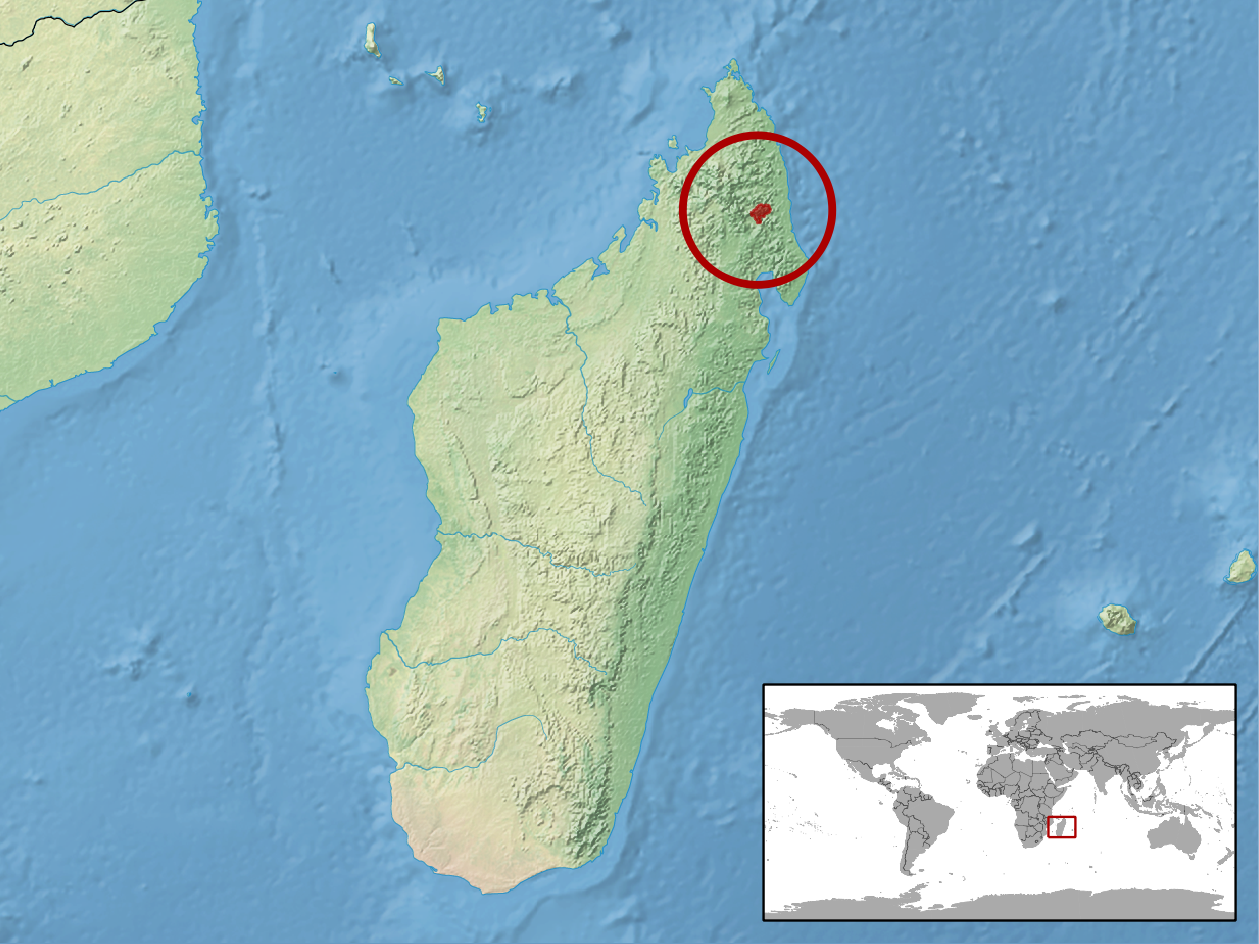 geographic distribution of Brookesia karchei (Native: Madagascar)